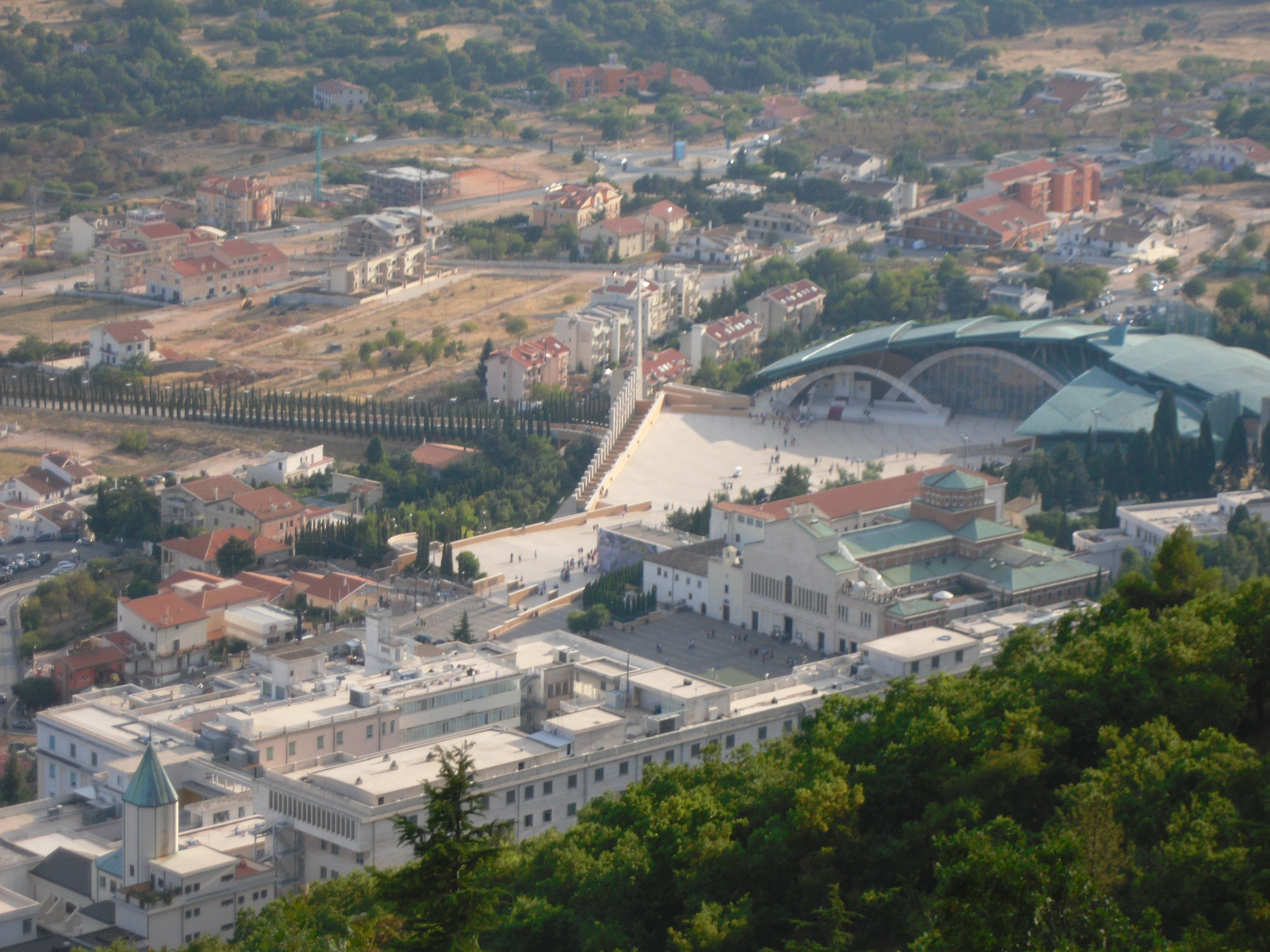 Panoramic view of the Church of Saint Pio of Pietrelcina, of the Sanctuary of Saint Mary of Graces and of the Hospital "Casa Sollievo della Sofferenza"